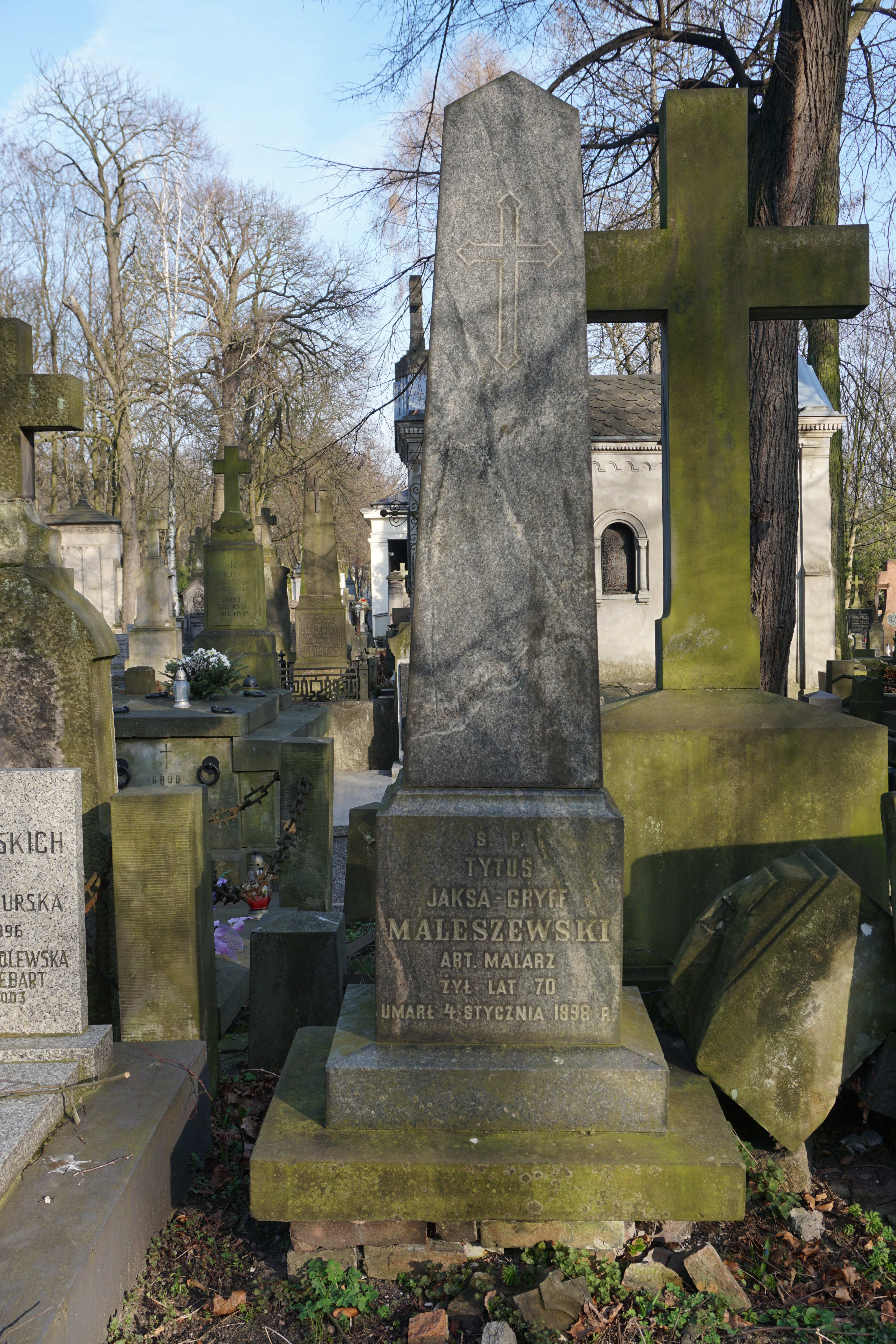 The grave of Titus Maleszewski at the Powązki Cemetery (section 175, row 6, grave 5)